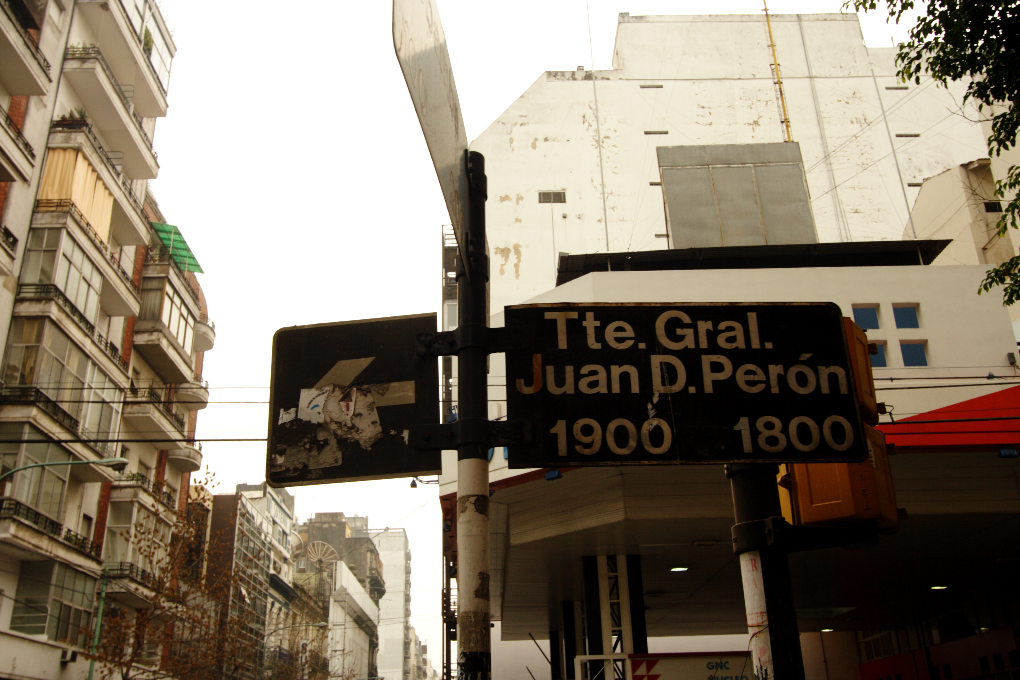 Street sign on Juan Perón Street, Buenos Aires.